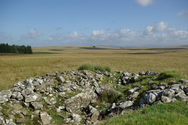 Cairn Kenny